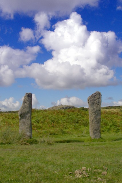 The Pipers - standing stones near the Hurlers This is a pair of standing stones, not far to the west of the Hurlers stone circles on Craddock Moor. The name of this pair of stones is associated with the usual petrification folklore relating to stone circles - these are a pair of pipers turned to stone for playing on the Sabbath, presumably accompanying the Hurlers in their game of hurling. Looking to the north, directly between the stones, you see Stowe's Hill - site of a neolithic enclosure and the natural rock formation of the Cheesewring. The right hand side of the hill is scarred by the Cheesewring granite quarry. The dung in the foreground was left by one of the ponies that graze the open moorland.